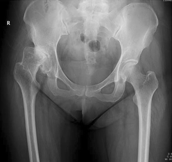 Pre-operative radiographic aspect in an anteroposterior view of a 40-year-old female with Crowe grade II hip dysplasia on her right side. The patient presented with a narrow femoral canal.